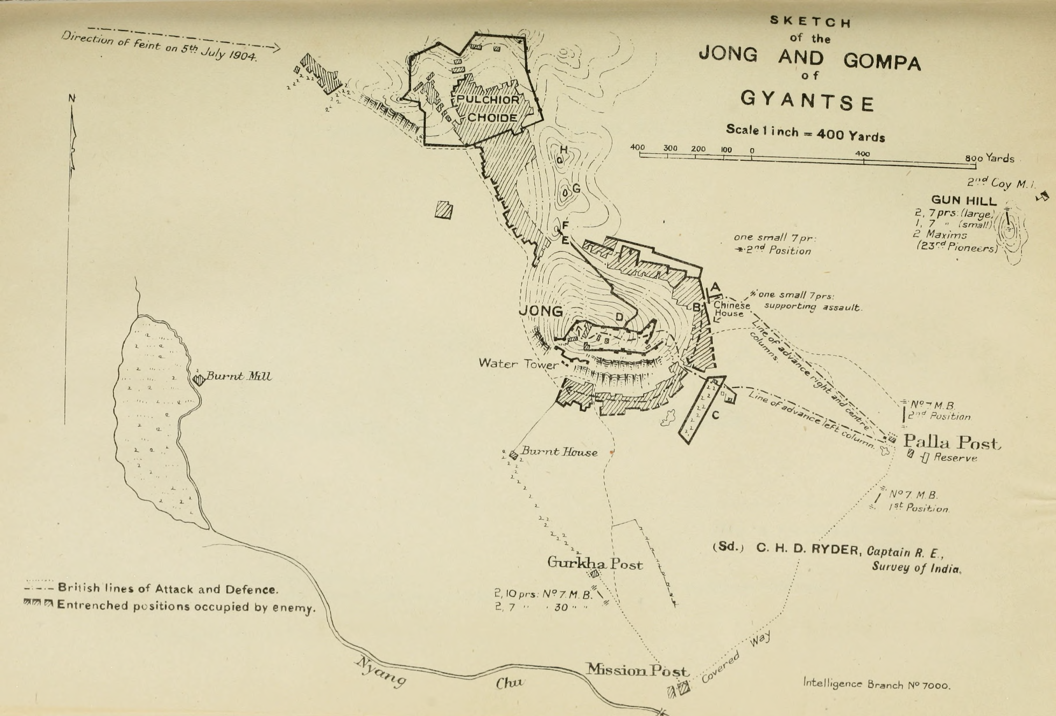 Sketch map of battle at Gyantse Dzong and Pelkor Chode Monastery between British Indian army and Tibetan army in 1904, part of Younghusband expedition to Tibet. The major attack started from Palla village, the target is Gyantse Dzong(marked 'Jong' in the middle of the map). A feign attack was directed at Pelkor Chode Monastery(marked 'Pulchior Choide' in the upper left).